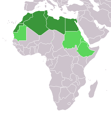 Map of countries in geo-political North Africa — as considered by some systems.